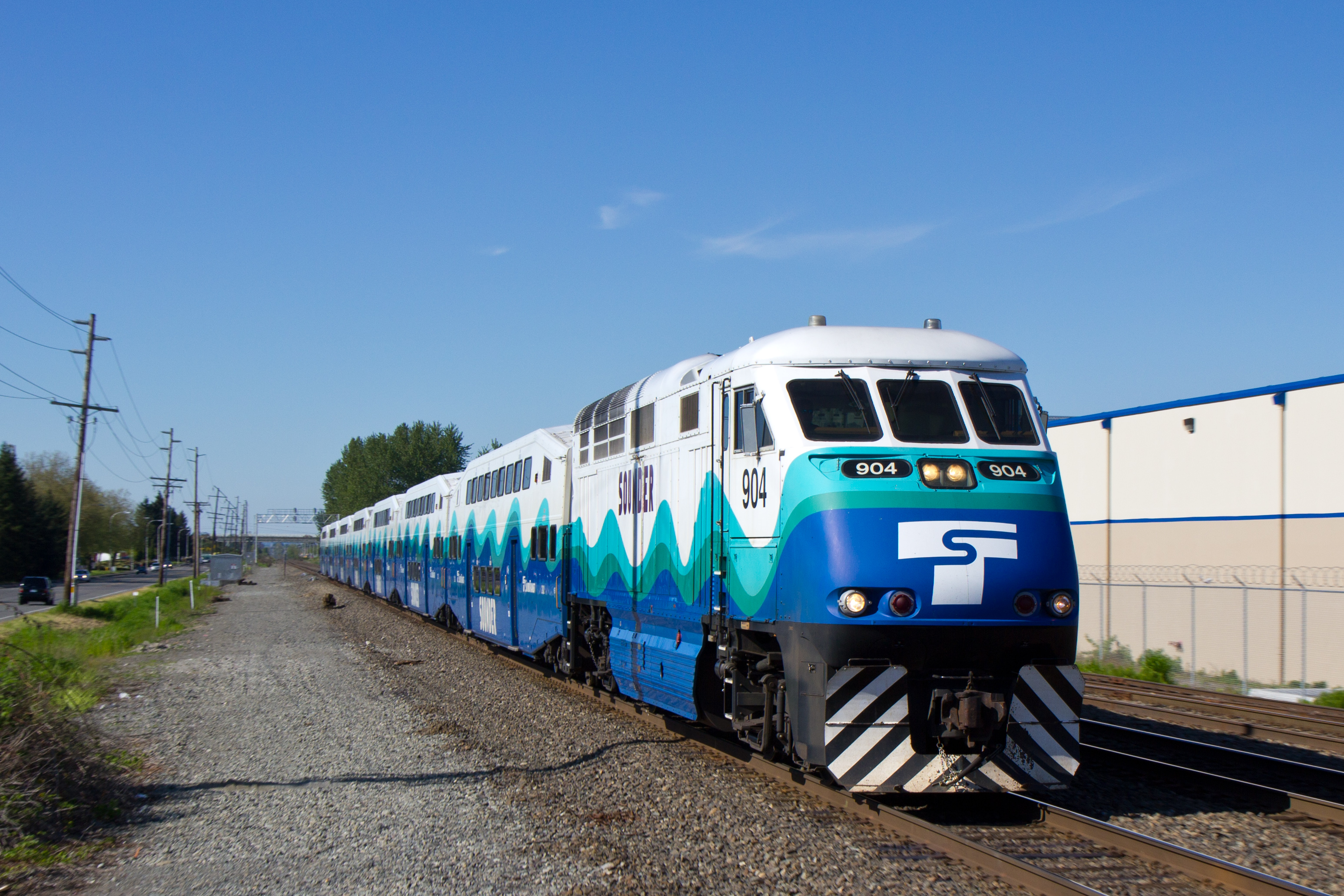 Sound Transit Sounder approaching Auburn Station